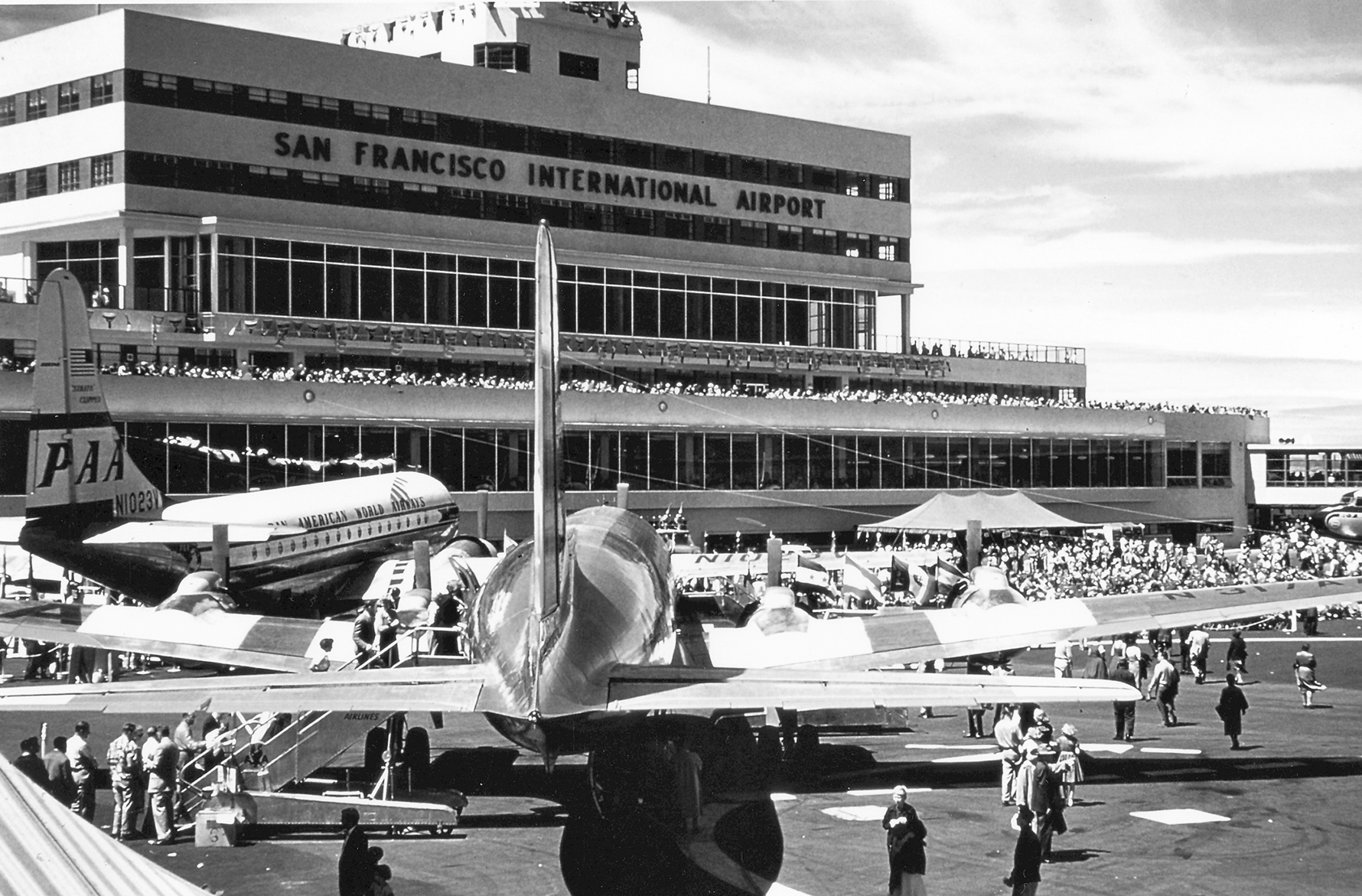 Thousands of people turned out for a day of aviation exhibits and the dedication of the new SFO Terminal on August 27, 1954.